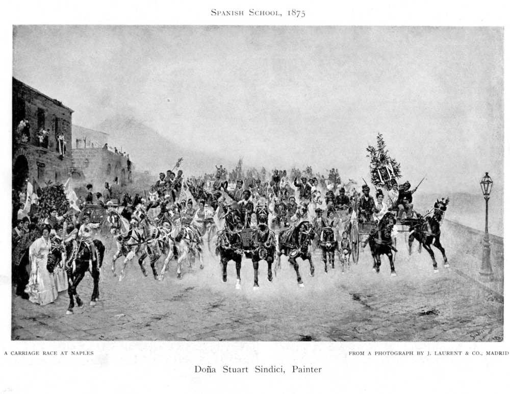 1905 print after page of Women painters of the world, from the time of Caterina Vigri, 1413-1463, to Rosa Bonheur and the present day, by Walter Shaw Sparrow, The Art and Life Library, Hodder & Stoughton, 27 Paternoster Row, London